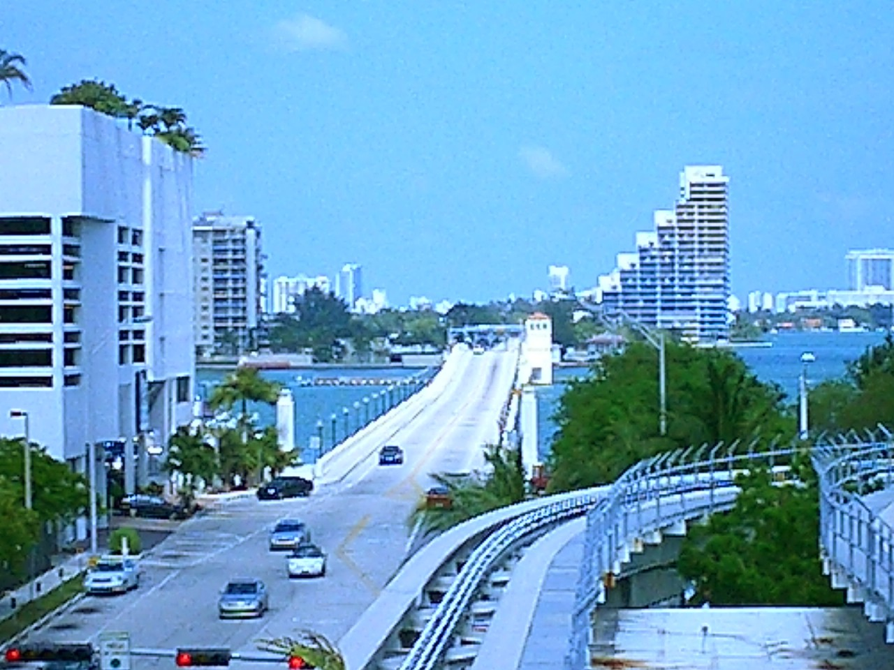 Venetian Causeway in downtown Miami looking east towards Miami Beach.